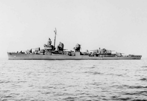 The U.S. Navy Fletcher-class destroyer USS Halford (DD-480) off the Mare Island Naval Shipyard on 3 December 1943. During her refit, Halford´s catapult had been removed and she was converted to a "regular" Fletcher-class destroyer, a fifth 12.7 cm/38 gun and a second set of torpedo tubes replacing the catapult.